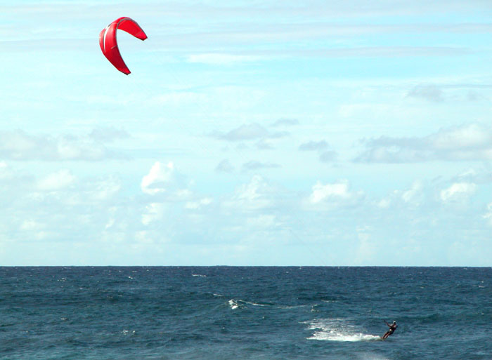 Kite surfer, Kauai, Hawaii. It's a little difficult to see unless you download the full size version, but there's a person in the lower right corner.